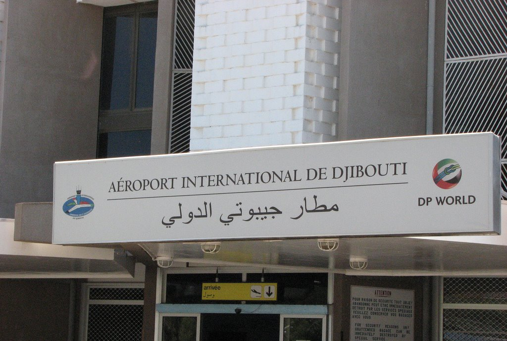 The arrival entrance to the Djibouti International Airport in Djibouti City, Djibouti.